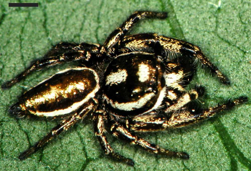 Male Eris flava jumping spider captured near Lake Wauberg in Alachua County, Florida, USA